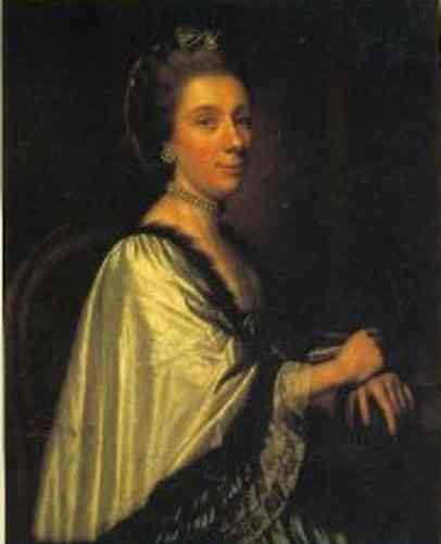 Portrait of English silversmith Louisa Courtauld (1729–1807) painted by Johann Zoffany (1733 -1810) She looks towards the right, hands one on top of the other, and is wearing a green cape with fur trim and a necklace and earrings of pearls.